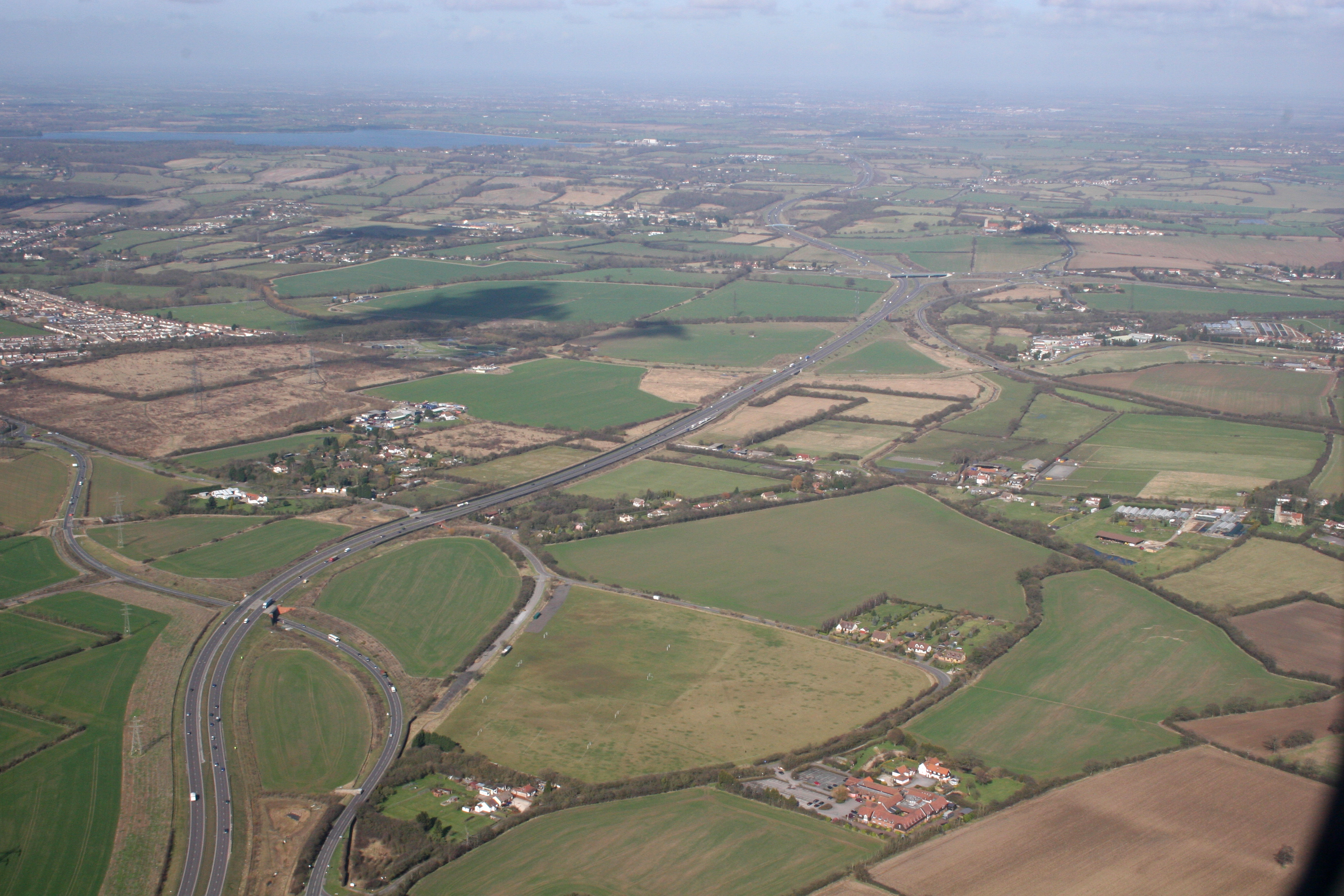 A130 passing over the A129. Parts of Shotgate,Rawreth and more can be seen. Also Hanningfield Reservoir.